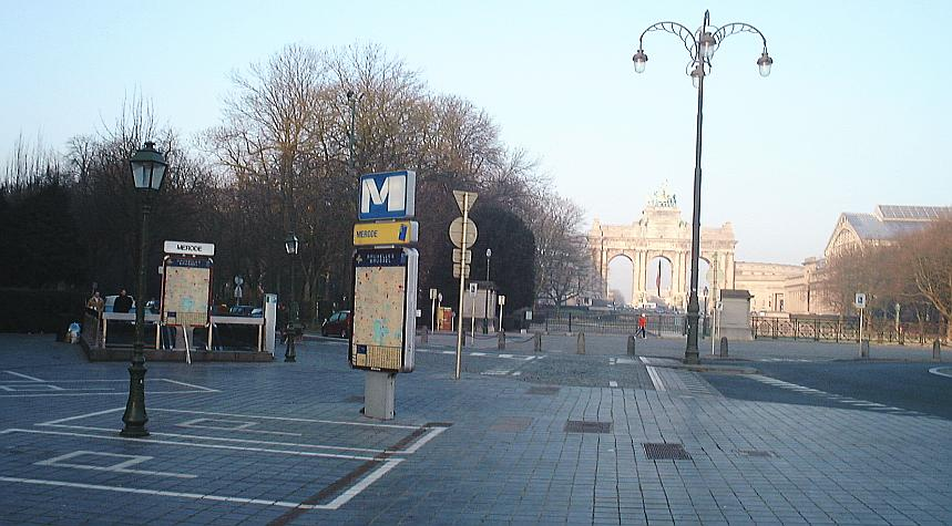 Entrance of Merode station, Brussels metro